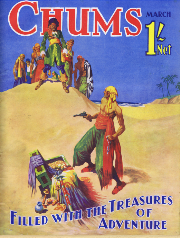 Cover of an early 1930s (March) edition of Chums magazine, with artwork by Cecil Glossop